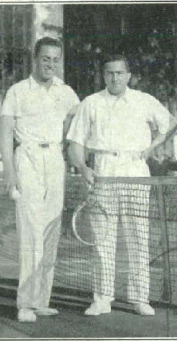 Hungarian tennis player Imre Zichy Béla Von Kehrling playing in Budapest, Hungary in 1914. Published in "Tennisz és Golf" a 45 days-periodical newspaper by the printing press inc. Egyesült Kő-, Könyvnyomda. Könyv- és Lapkiadó Rt. in 1931.